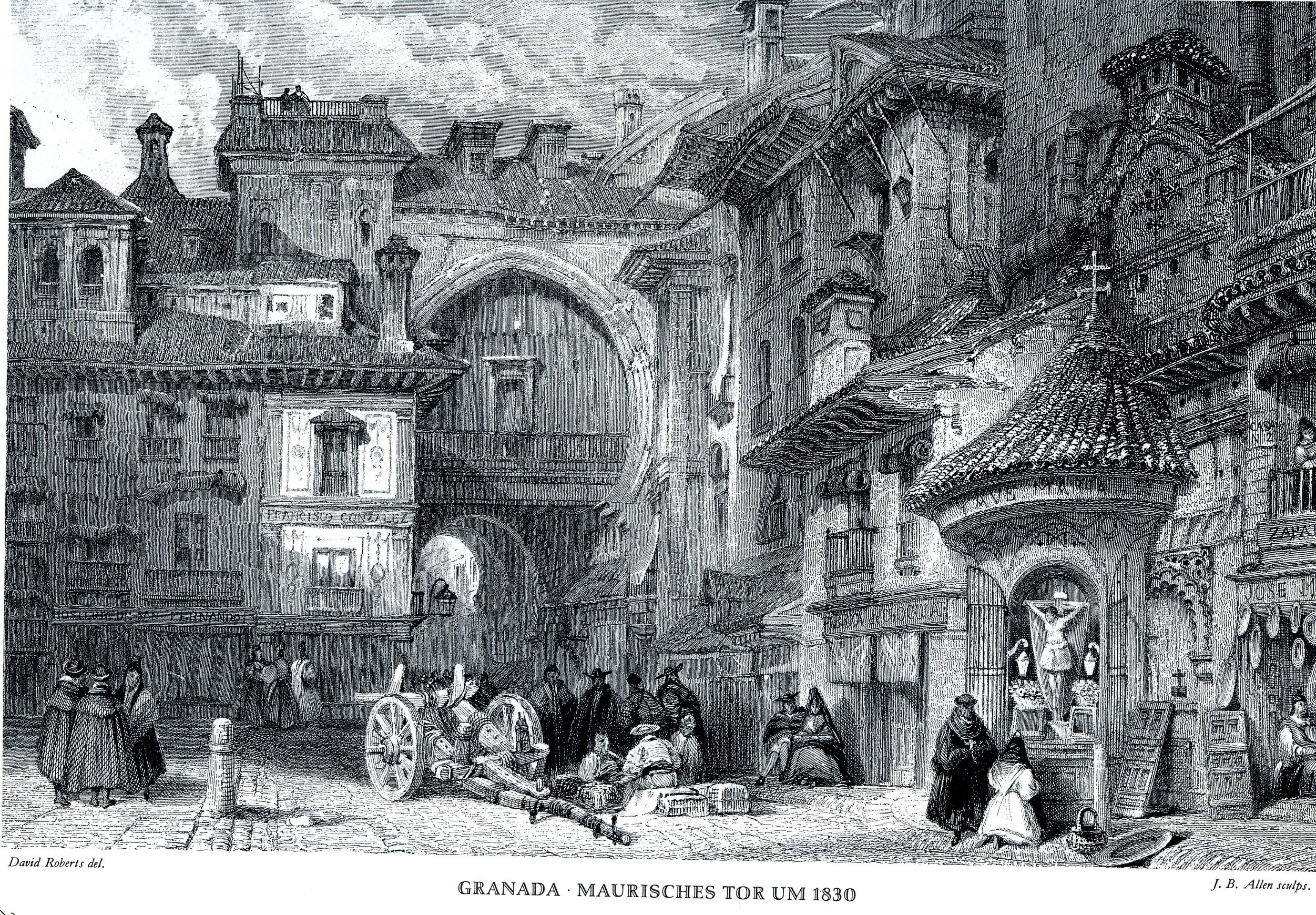 The Moorish Gate of Granada